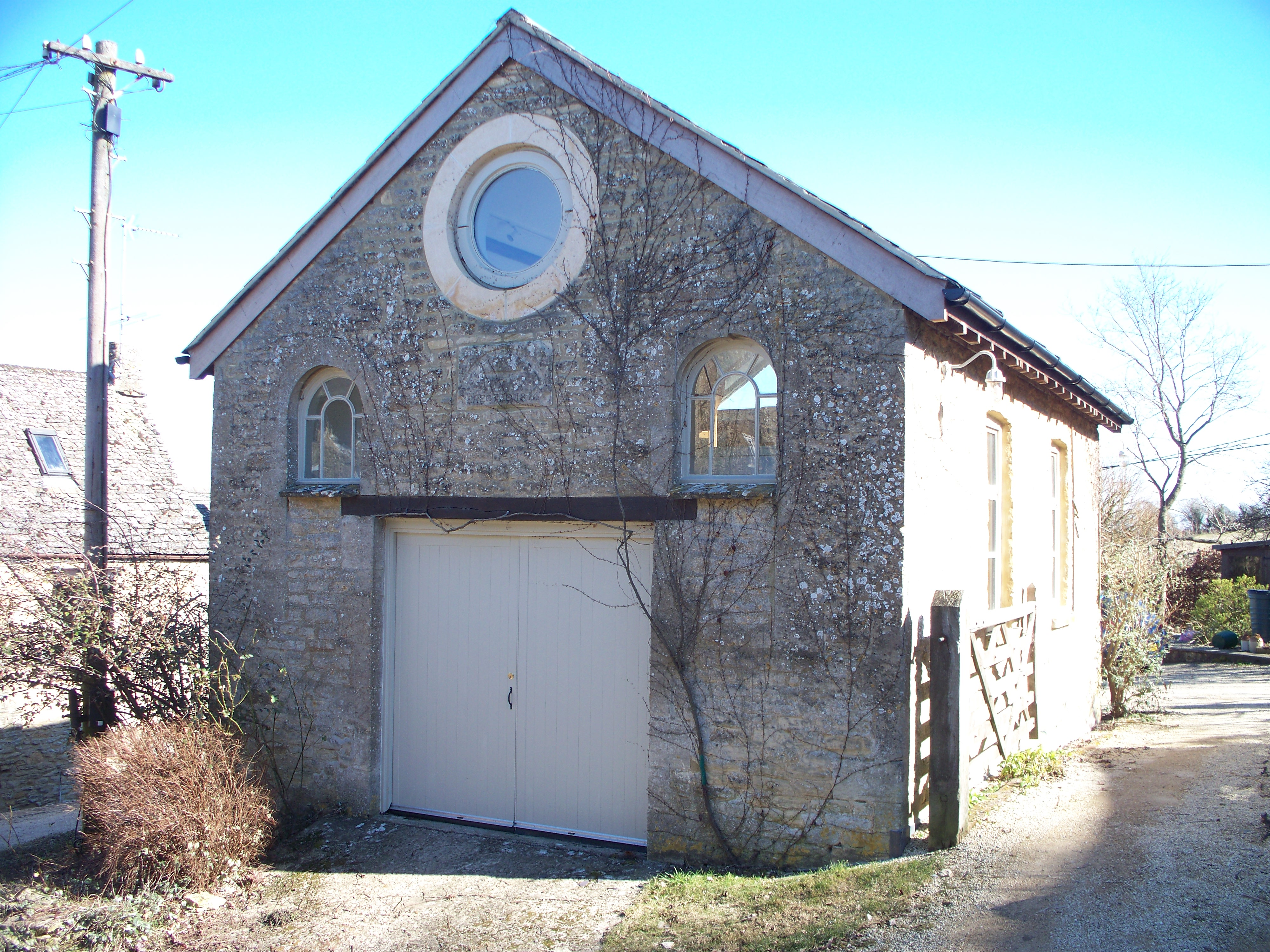 Former chapel at Lidstone, Oxfordshire, built in 1874